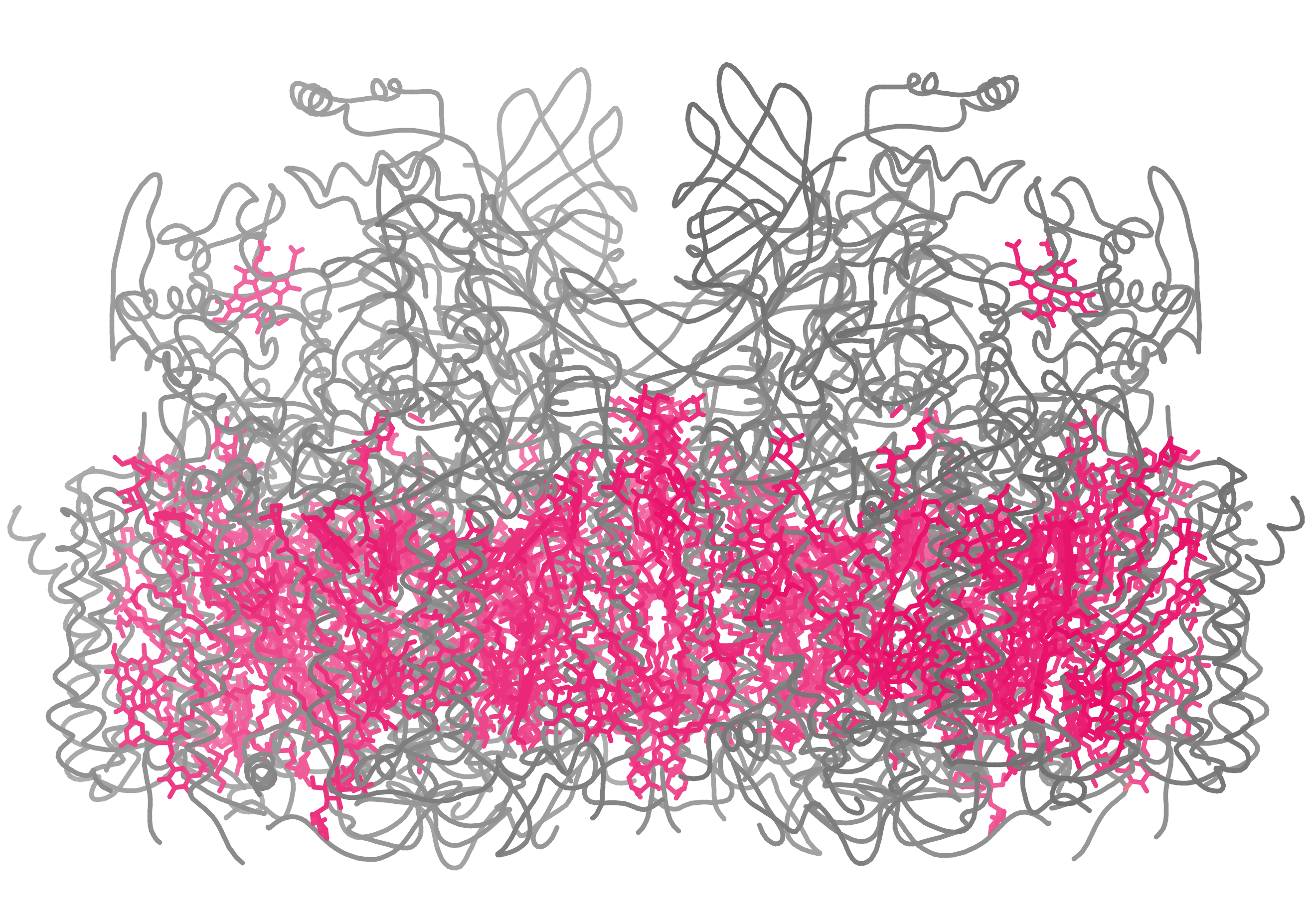 Photosystem II structure, with protein chains in gray backbone splines and chromophores in hotpink. This large membrane complex was solved from data collected in femtosecond pulses from a free-electron laser: PDB file 4FBY.